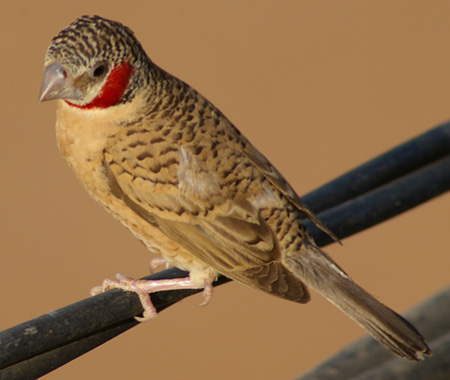 A male Cut-throat Finch (Amadina fasciata).